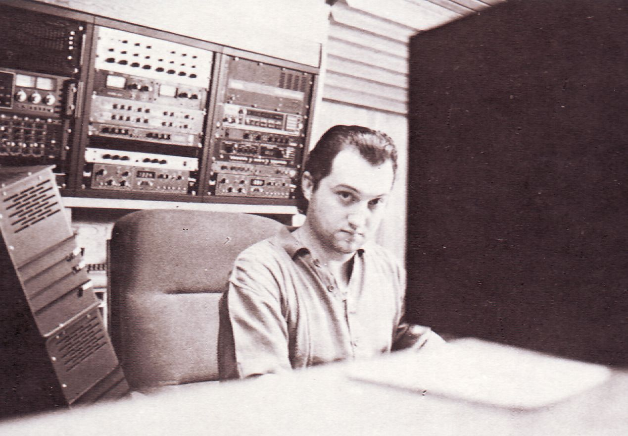 Sandy Dian in Sandy's Recording Studio 1984